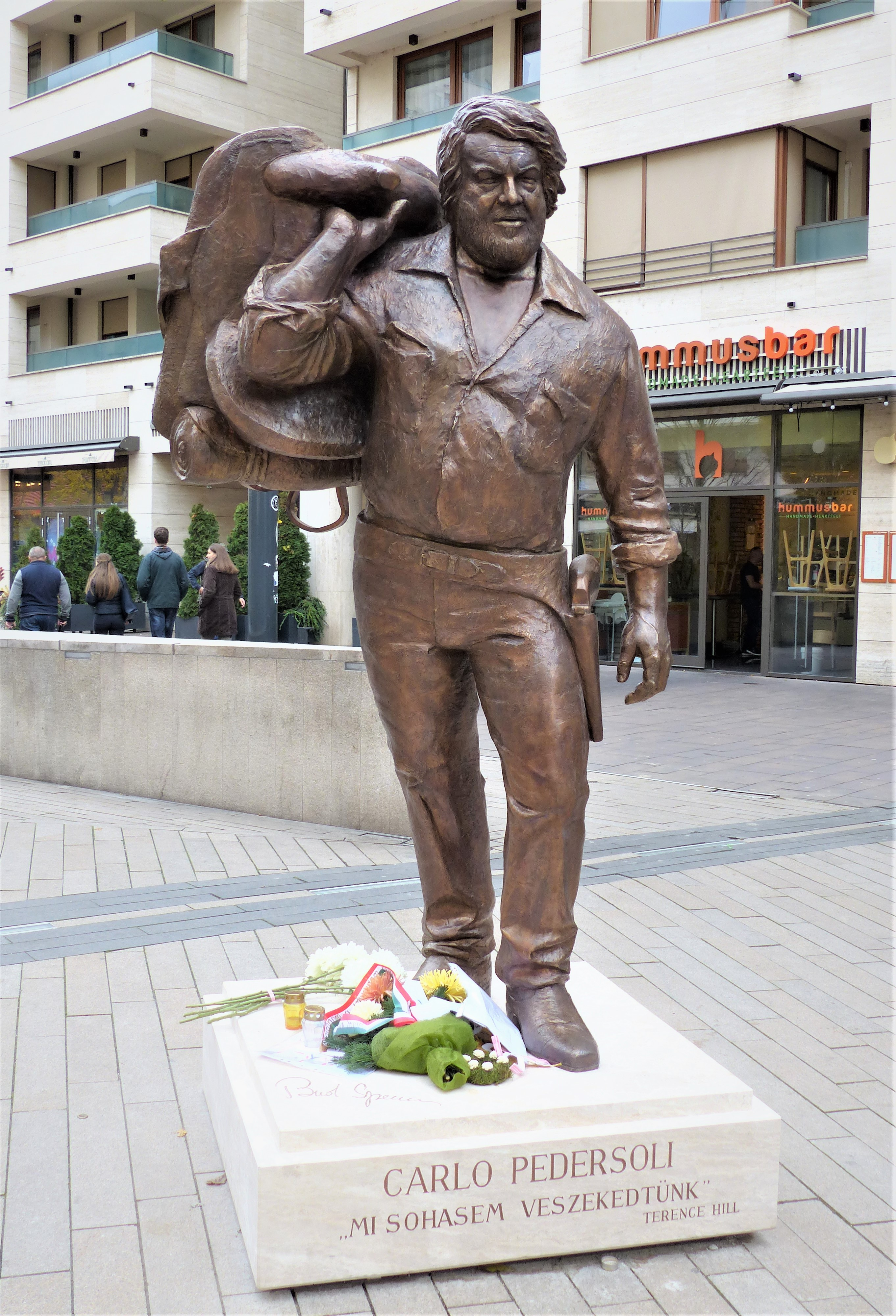 Bud Spencer statue in Corvin promenade, Budapest district 8, Hungary